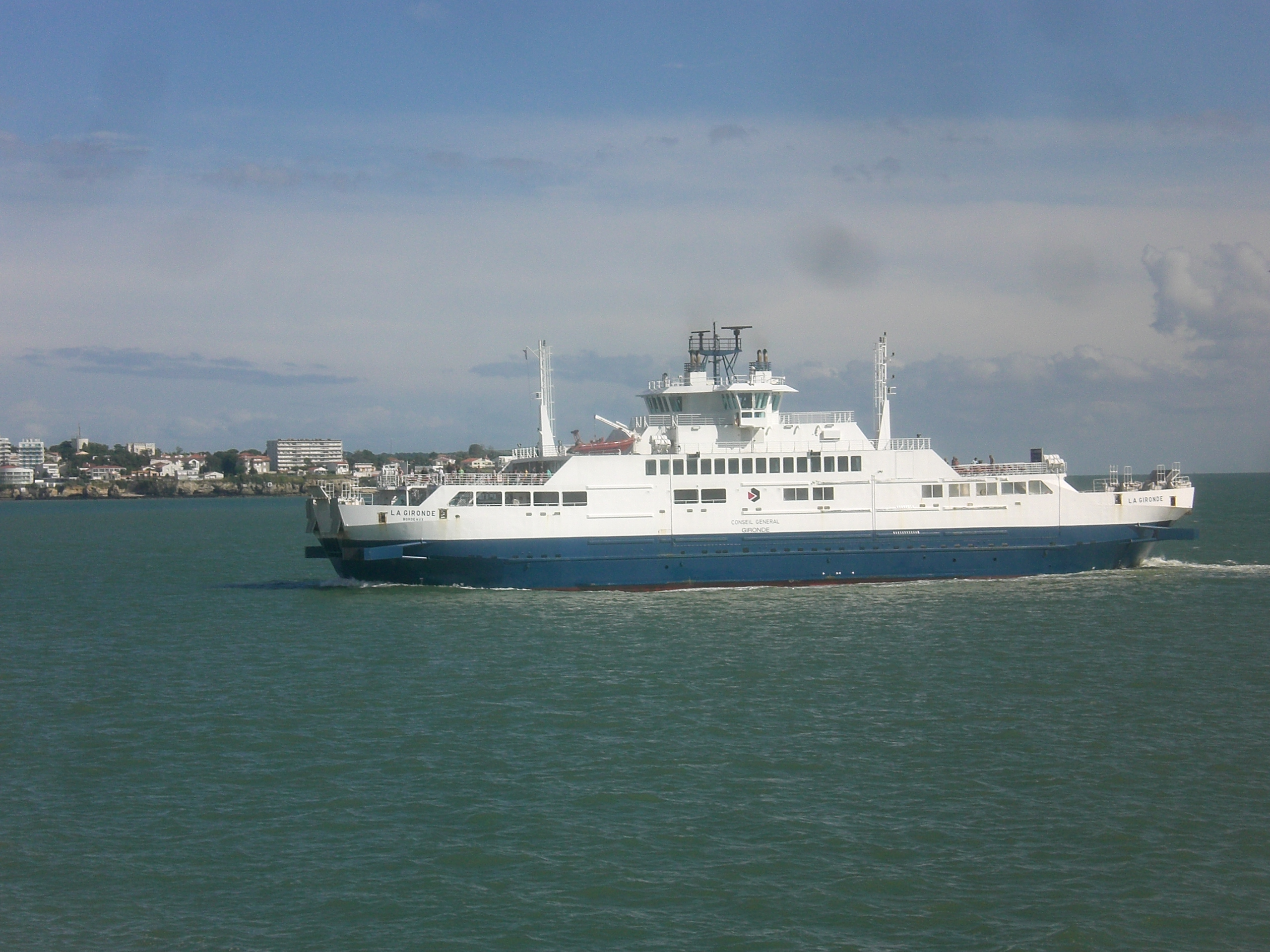 ferry in Royan on the way to Le Verdon-sur-Mer (Médoc)